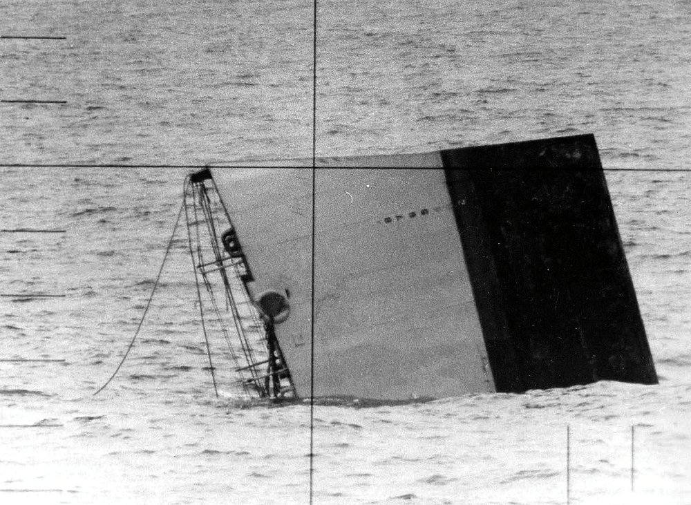 The retired U.S. Navy destroyer escort USS Whitehurst (DE-634) sinking on 28 April 1971, as seen through the periscope of the the submarine USS Trigger (SS-564).